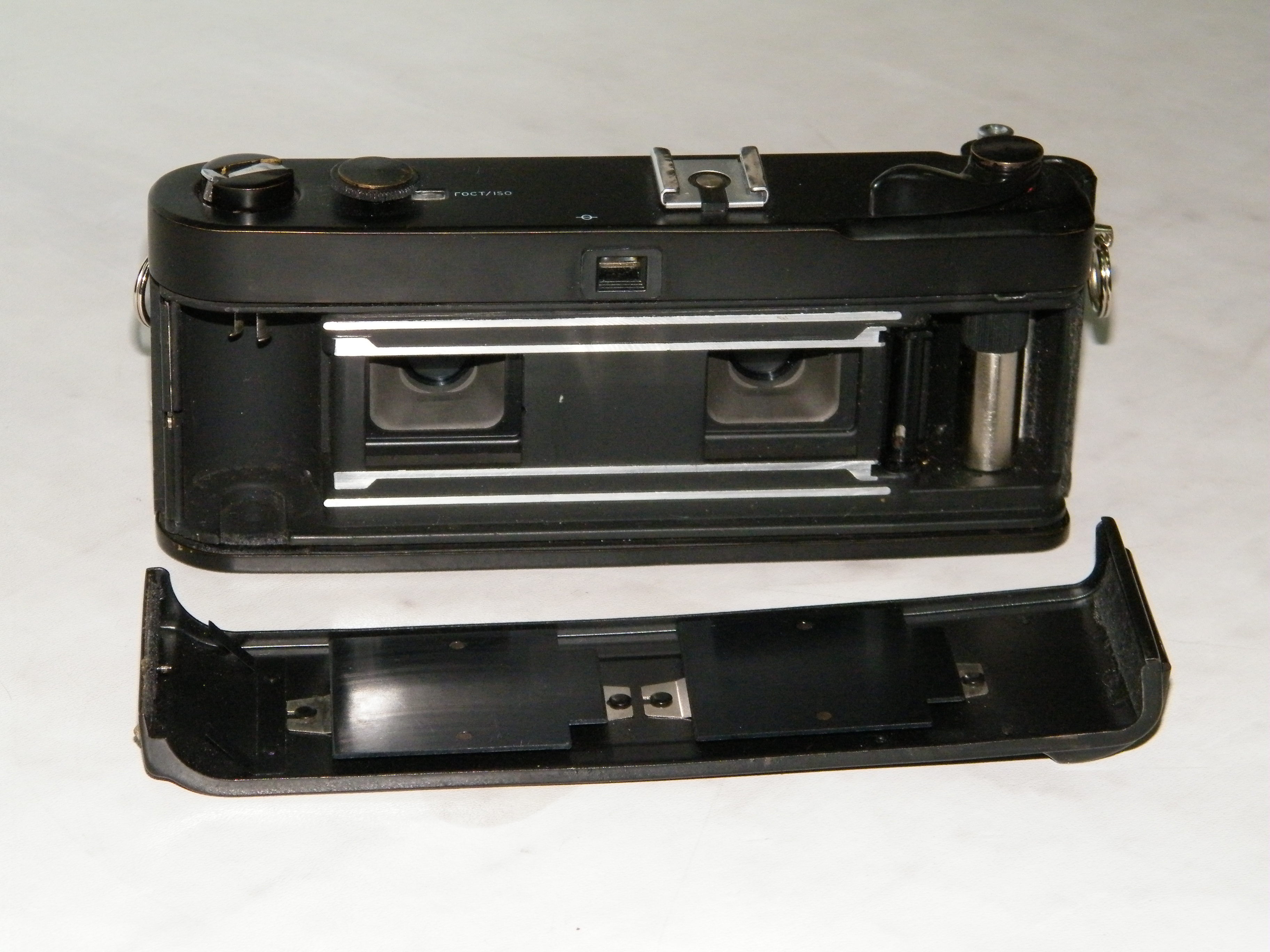 FED-STEREO_from_Evgeniy_Okalov_collection